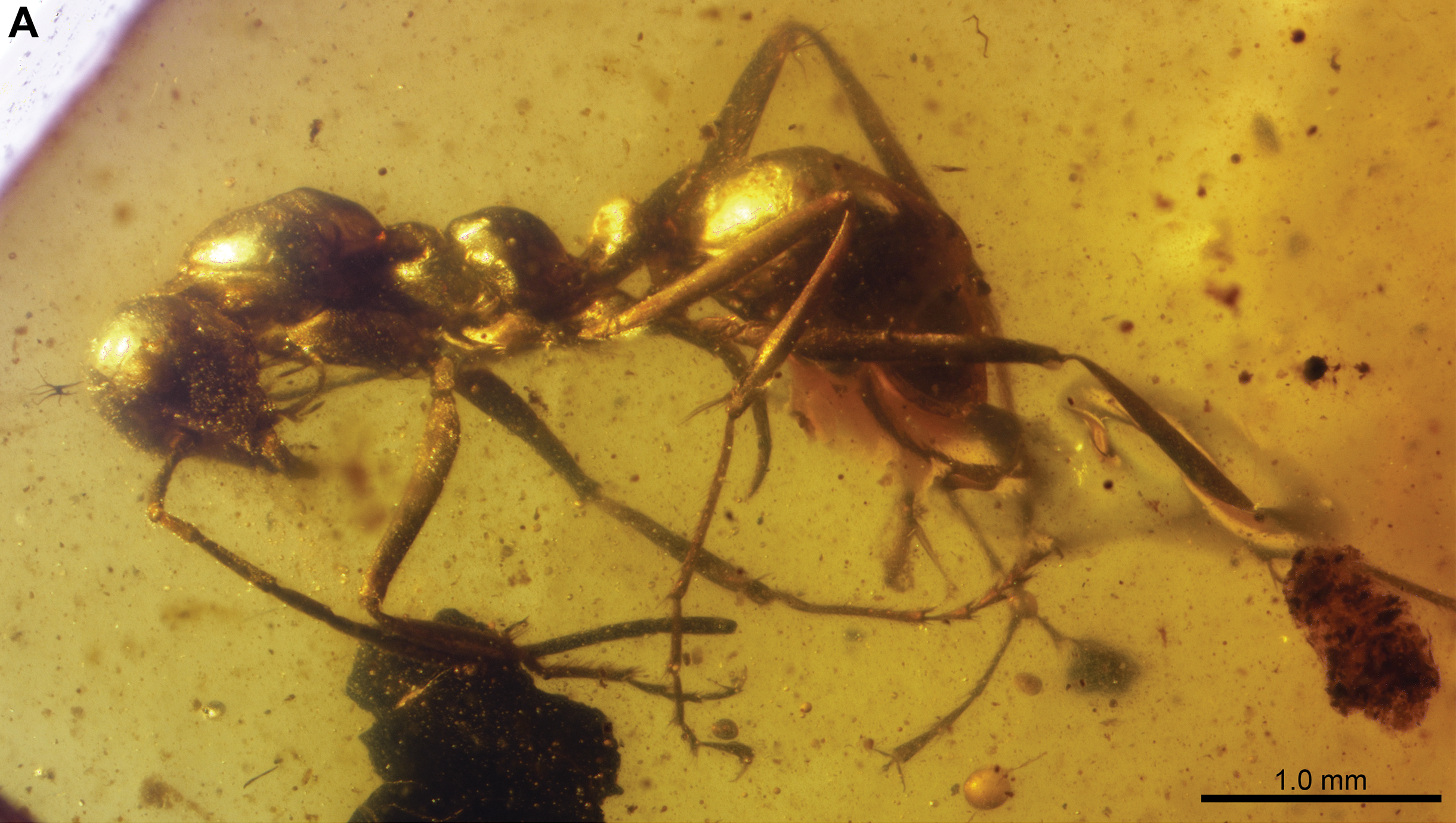 Figure 7. Gerontoformica spiralis (syn Sphecomyrmodes spiralis) holotype JZC Bu222A photomicrographs. A. Full lateral view of entire.